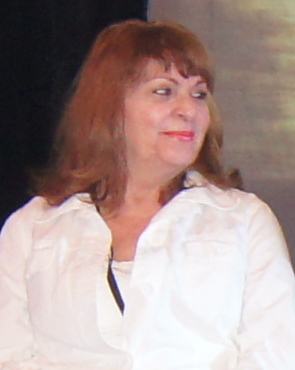 (Seated, L-R) Marilyn Burns, Teri McMinn, William Vail, Ed Neal, John Dugan, Ed Guinn, Allen Danziger from the TCM panel at Days of the Dead Indianapolis 2012.